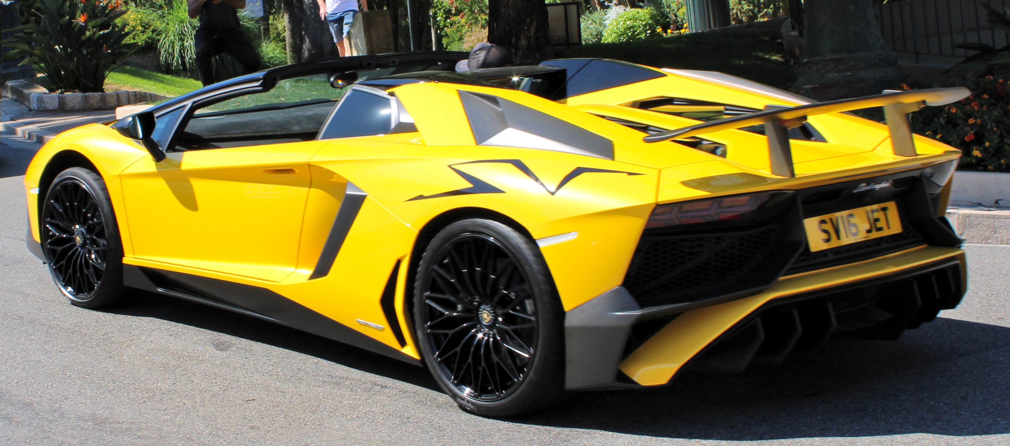 Lamborghini Aventador LP750-4 SV Roadster in Monaco